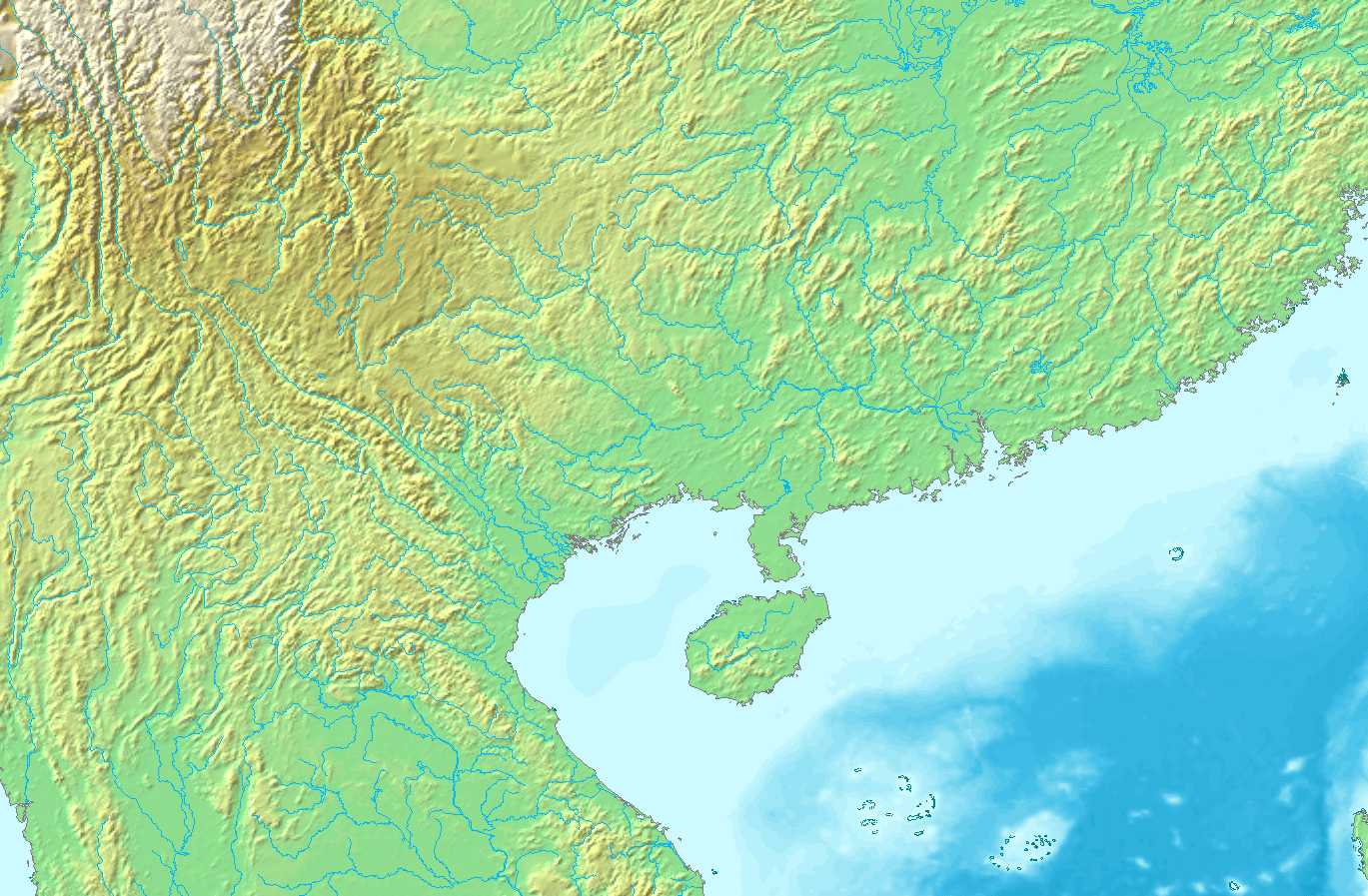 Physical map of southeastern China based on